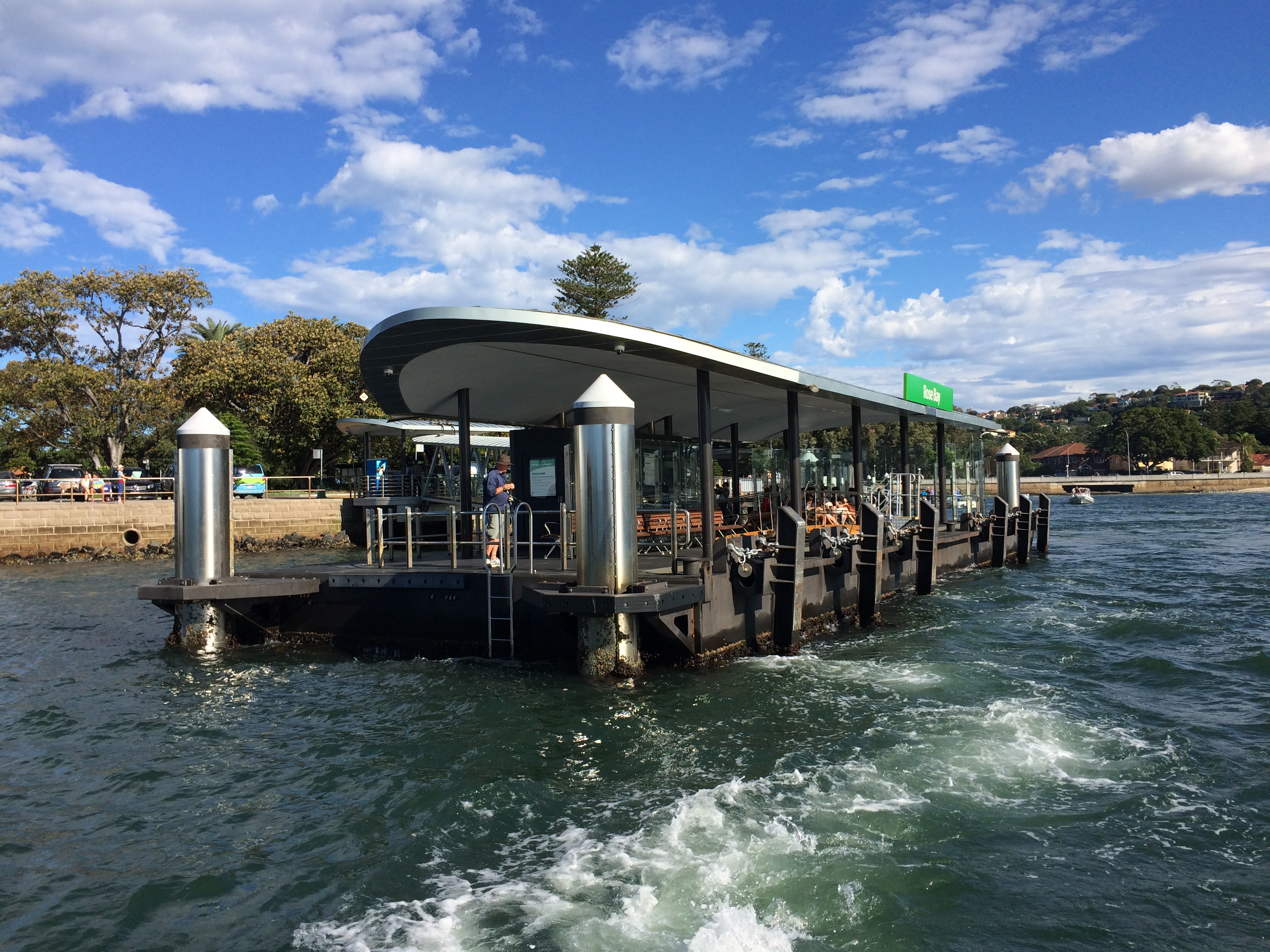 Outbound view of Rose Bay ferry wharf, in Rose Bay, New South Wales, aboard the Supercat 4. The most recent revision to the design and structure fo the wharf opened in 26 September 2012, as part of the O'Farrell New South Wales Government's initiative to upgrade various wharves across the Sydney Ferries network. This was continued into the Baird and Berejiklian Governments. Rose Bay wharf itself is one of two major points on the F7 Eastern Suburbs service, with the other being Watsons Bay ferry wharf. Both wharves are planned to be transferred over to a new iteration of the F4 service in late 2017, which will link former F4 Darling Harbour wharves with wharves across the eastern harbour.